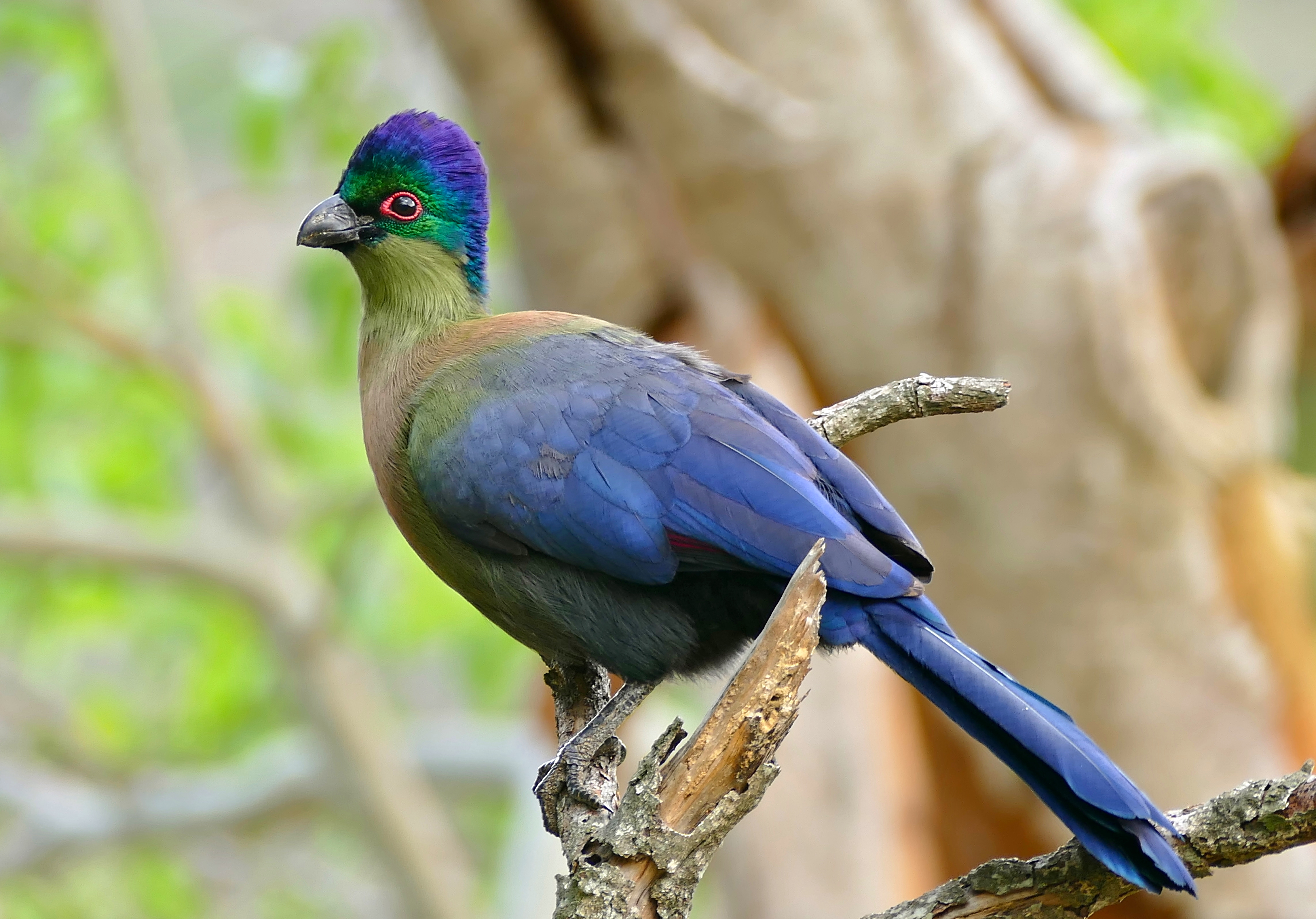 Ntshondwe Camp, Ithala Game Reserve, Kwazulu-Natal, SOUTH AFRICA